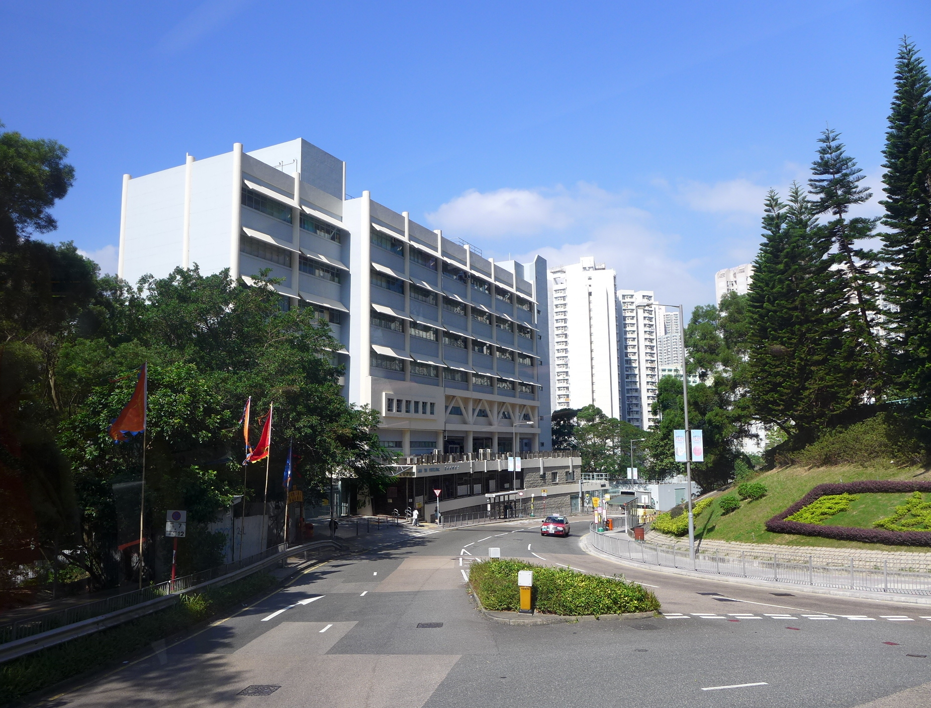 Lam Tin Polyclinic